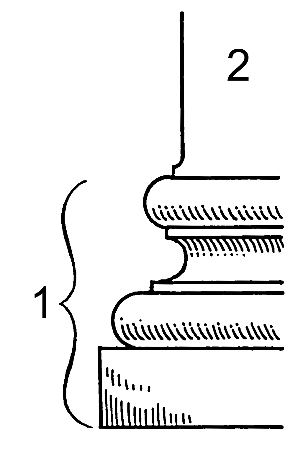 Line art drawing of the base of a column. Base Column shaft